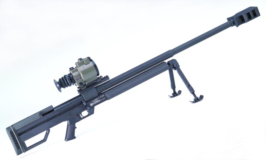 A Steyr HS .50 seen from the right side with a special scope.